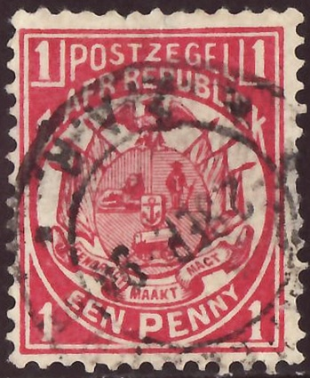 Stamp of South Africa (Transvaal Republic = "Zuid-Afrikaansche Republiek" (Z.A.R.)); 1885; definitive stamp of the issue "Coat of arms - wagon with one shaft"; postmarked Stamp: Michel: No. 13 (ZA-TV); Yvert & Tellier: No. 75 (ZA-TV); Scott: No. 124 (ZA-TV) Color: red Watermark: none Nominal value: 1 (d. = "Denari" = Penny) Postage validity: 1885 - 1900 Postmark: 2 September 1894 (two-circle postmark wirh tight locality circle; 24 mm outer circle; with central one-line date) Stamp picture size: 18.5 x 22.5 mm